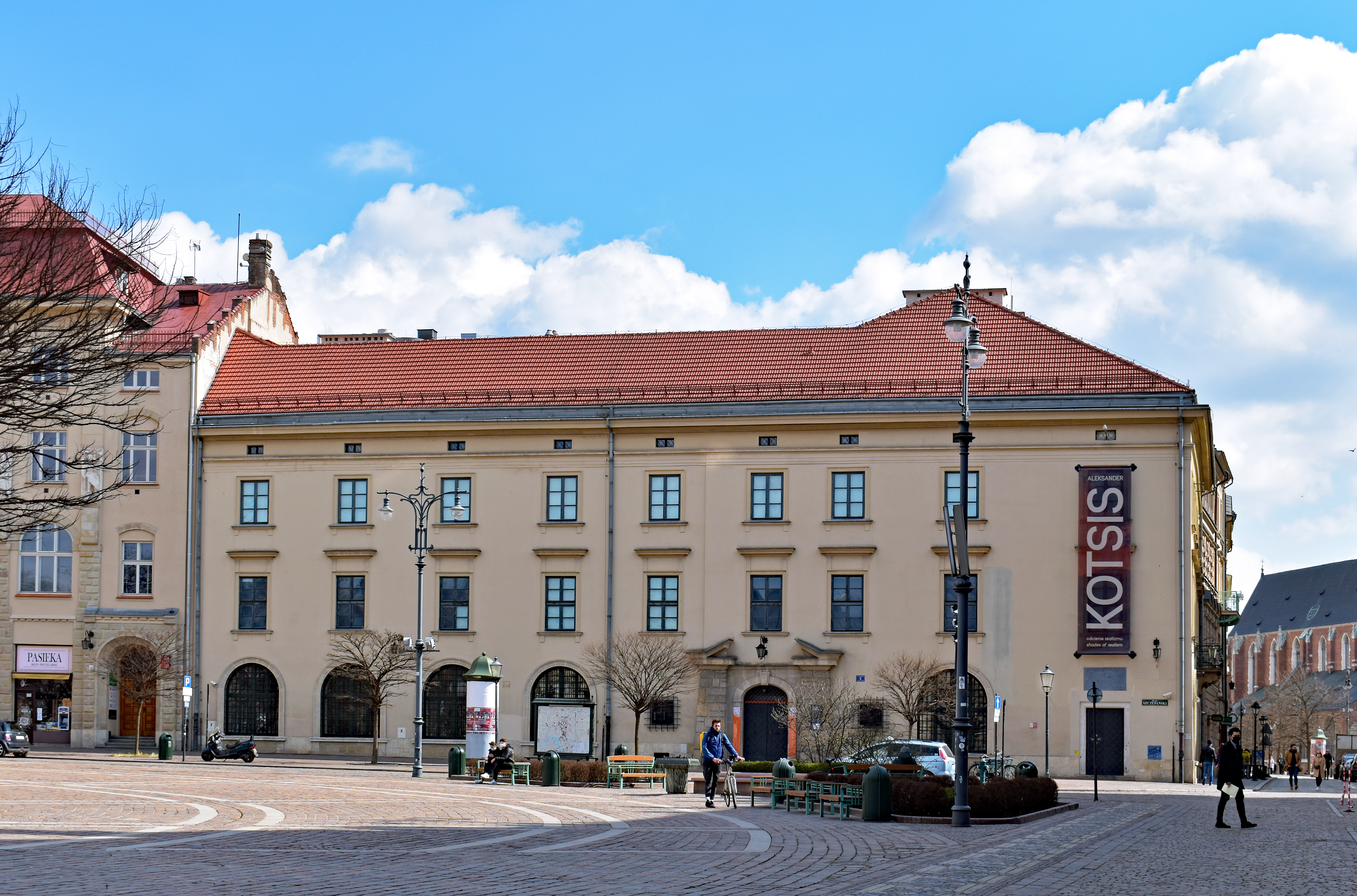 Szolayski House, 9 Szczepanski square,Old Town, Krakow,Poland